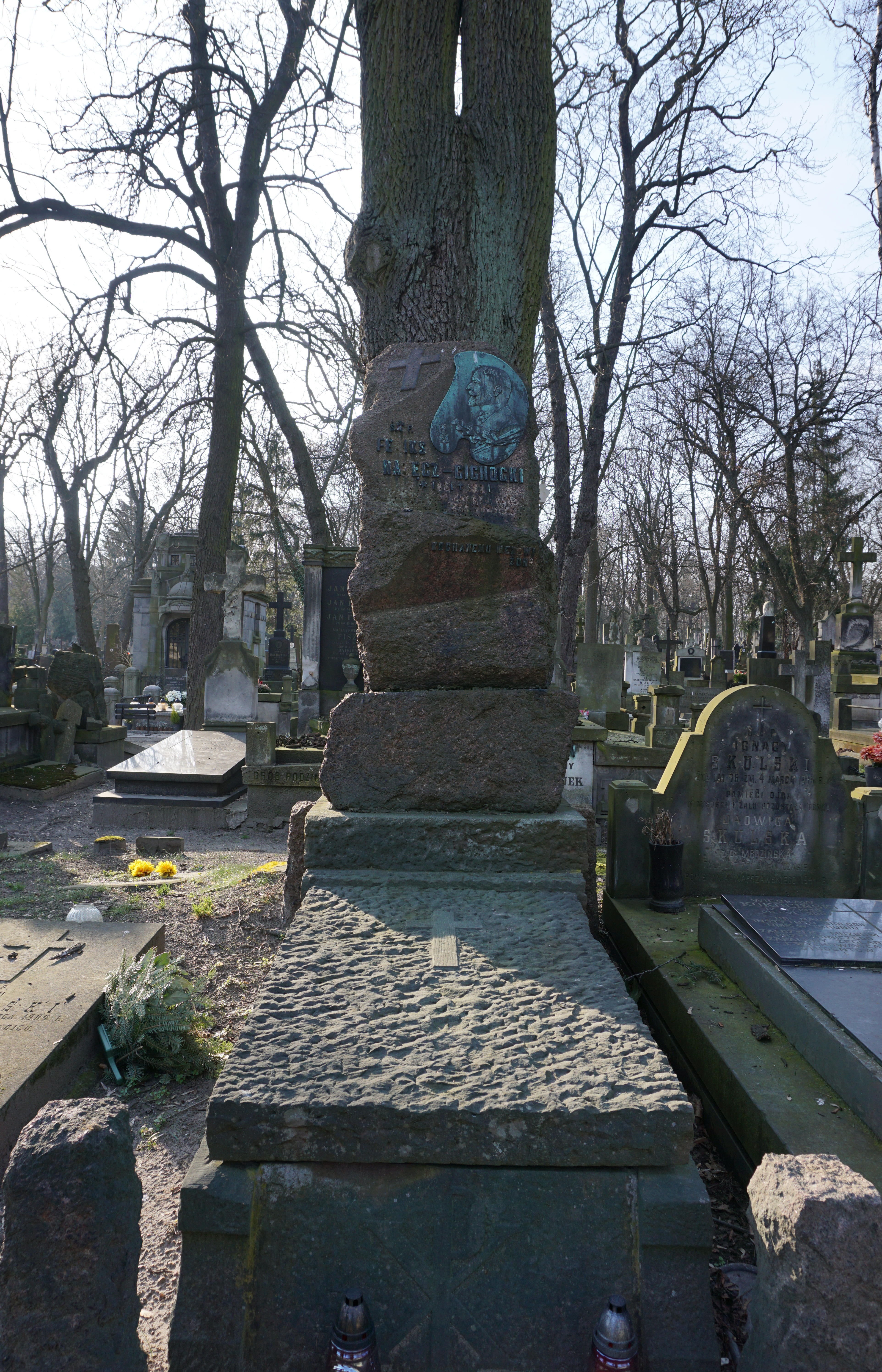 The grave of Feliks Cichocki at the Powązki Cemetery (section 175, row 3, grave 21)